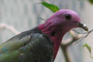 Pink-headed fruit dove (Ptilinopus porphyreus)